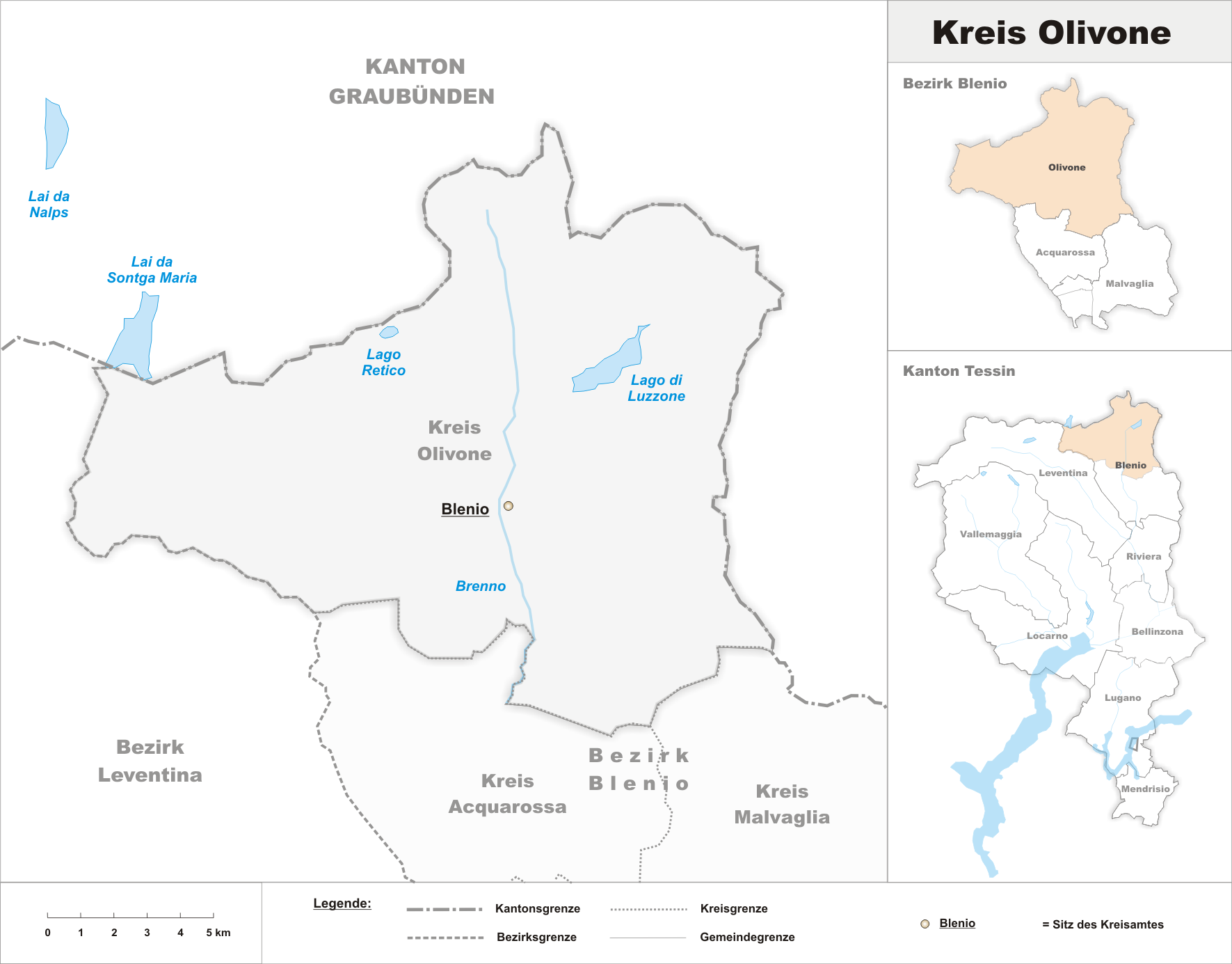 Municipalities in the circle of Olivone